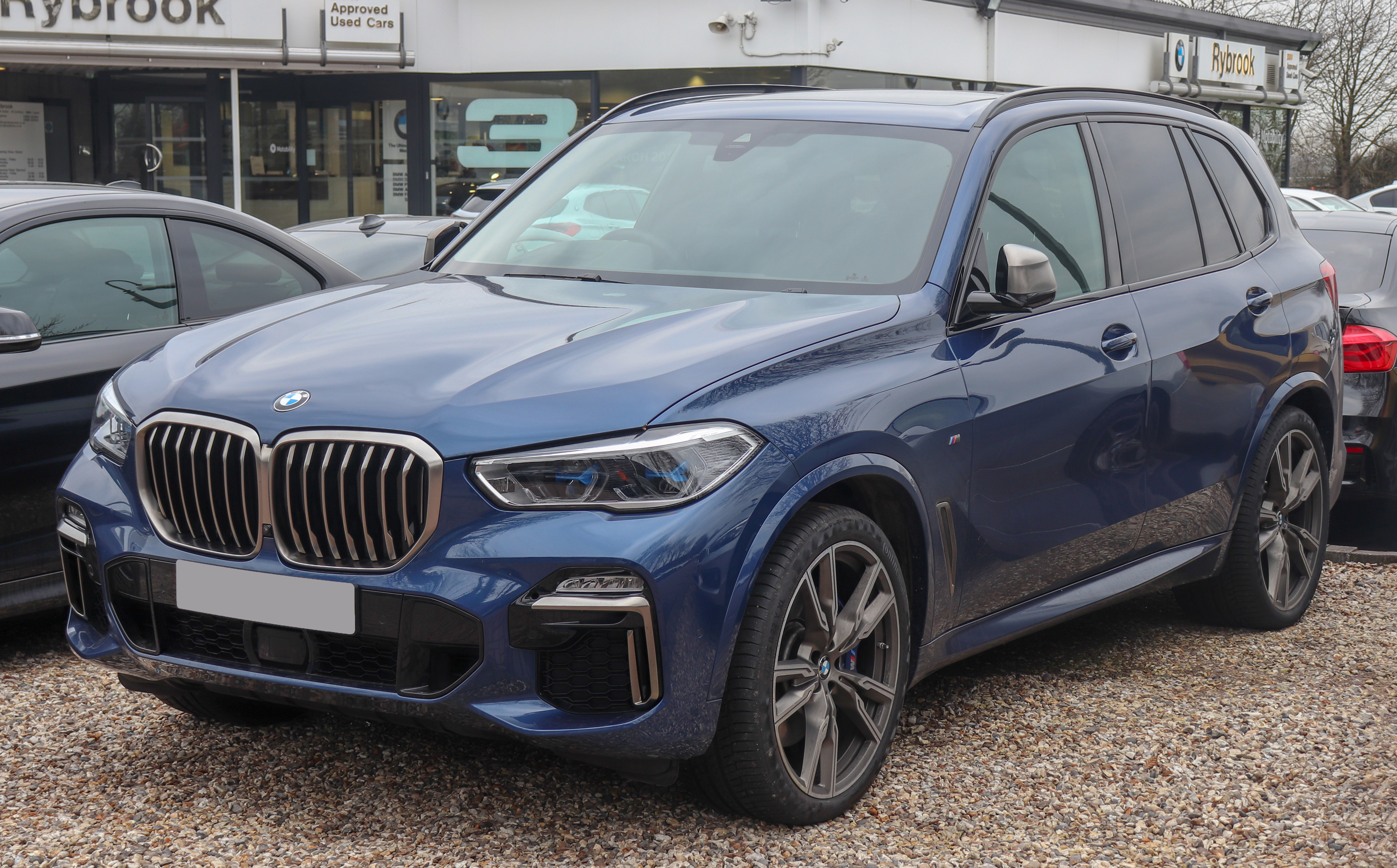 2019 BMW X5 M50d Automatic 3.0 Taken in Leamington Spa